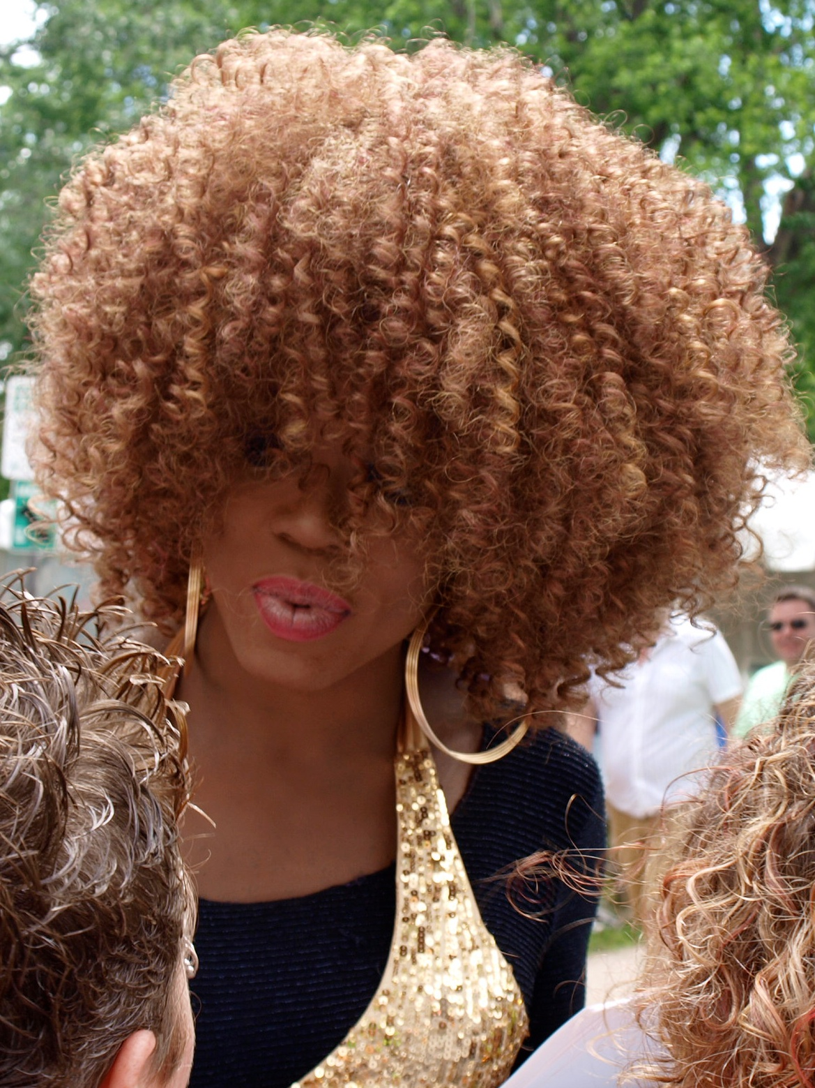 BeBe Zahara Benet at Twin Cities Pride